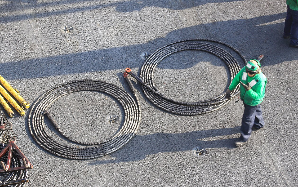 New cross deck pendants coiled and ready for swap out aboard USS Harry S. Truman (CVN-75) in Sept 2009. Photo by Pinch.